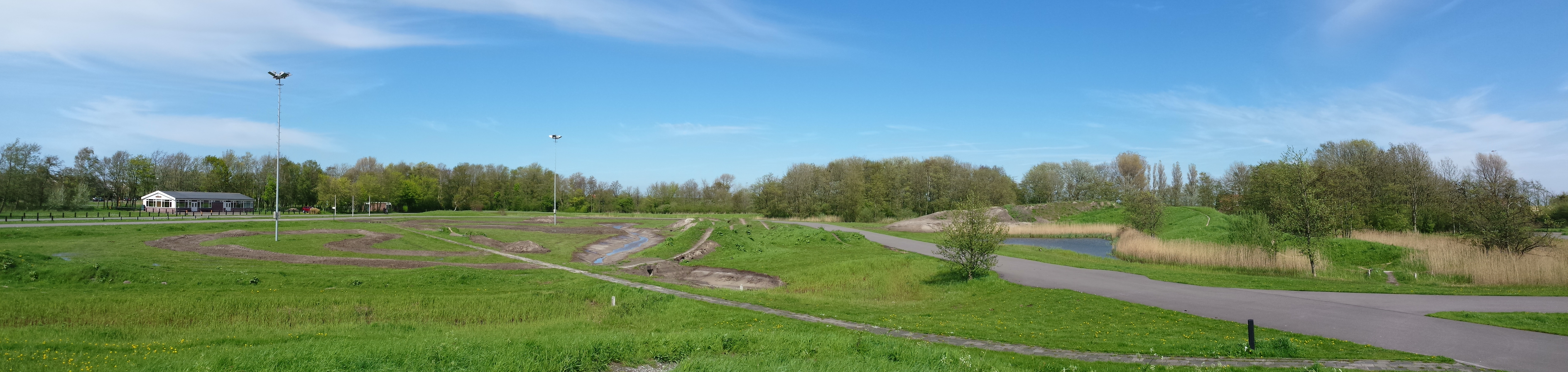 Cycling terrain in Den Helder